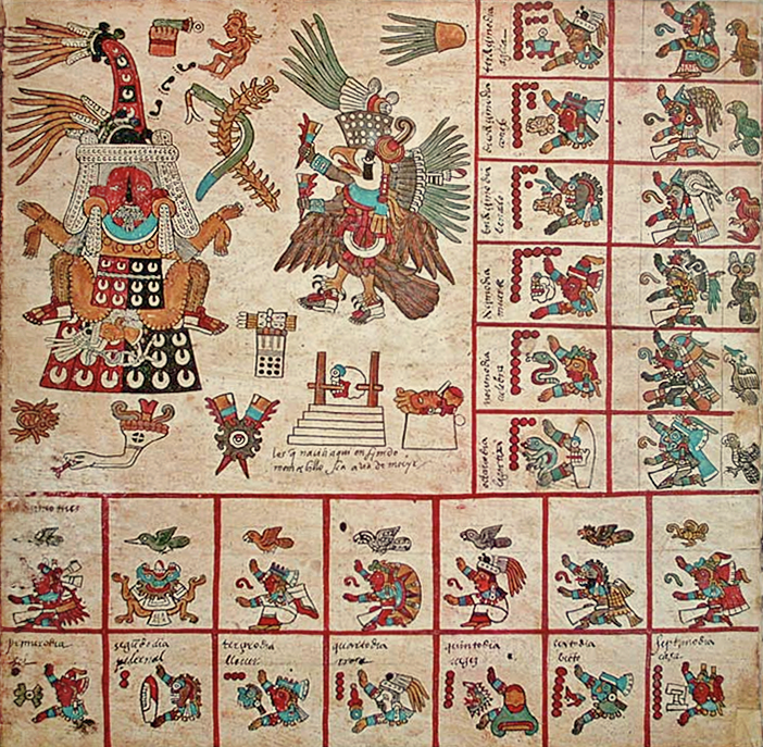 A photocopy of the original page 13 of the Codex Borbonicus, showing the 13th trecena of the Aztec sacred calendar (tonalpohualli). This 13th trecena was under the auspices of the goddess Tlazolteotl, who is portrayed wearing a flayed skin, giving birth to Cinteotl. The 13 day-signs of this trecena, starting with 1 Earthquake, 2 Flint/Knife, 3 Rain, 4 Flower, etc., are shown on the bottom row and, starting with 8 Lizard, 9 Snake, 10 Death, etc., in the column going up along the right side. Note: this page is now catalogued as page 11 due to the loss of the first two pages (as well as the last two).